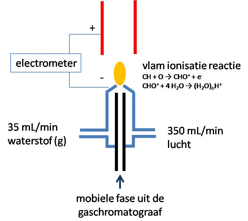 simplified representation of a FID detector